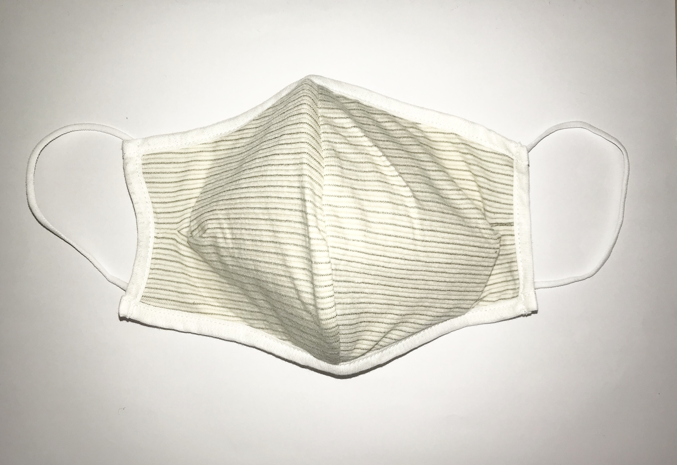 This picture is about an expended CuMask.